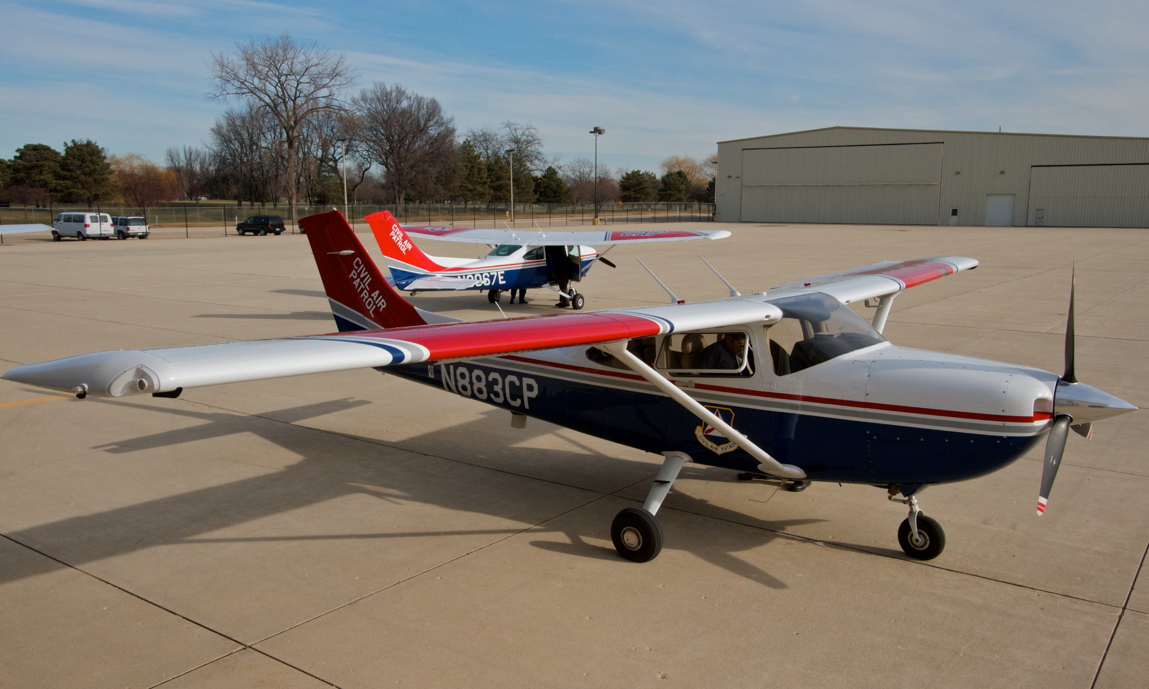 Civil Air Patrol Cessna 182T (N883CP) at DuPage Airport, West Chicago, IL. In the background is a Cessna 182R (N3067E).